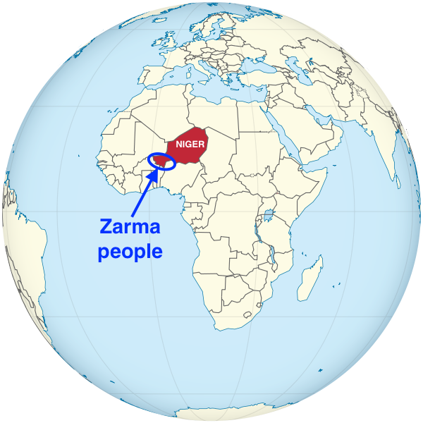 Approximate major distribution region of Zarma people in West Africa. This image is a derivative work on the following available on wikimedia under Creative Commons license: File:Niger on the globe (Africa centered).svg